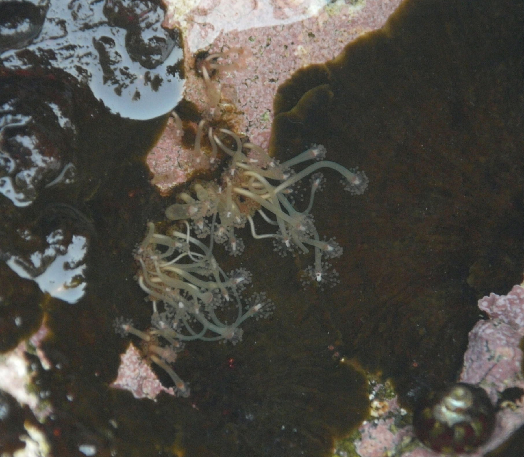 Hydrocoryne miurensis (Hydrocorynidae) Japanese name:ootamaumihidra Date;2009,03,29;Tanabe city, Wakayama prefecture, Japan Author;Keisotyo